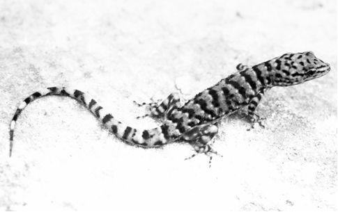 Gymnodactylus vanzolinii, at Mucugê municipality, Bahia, Brazil